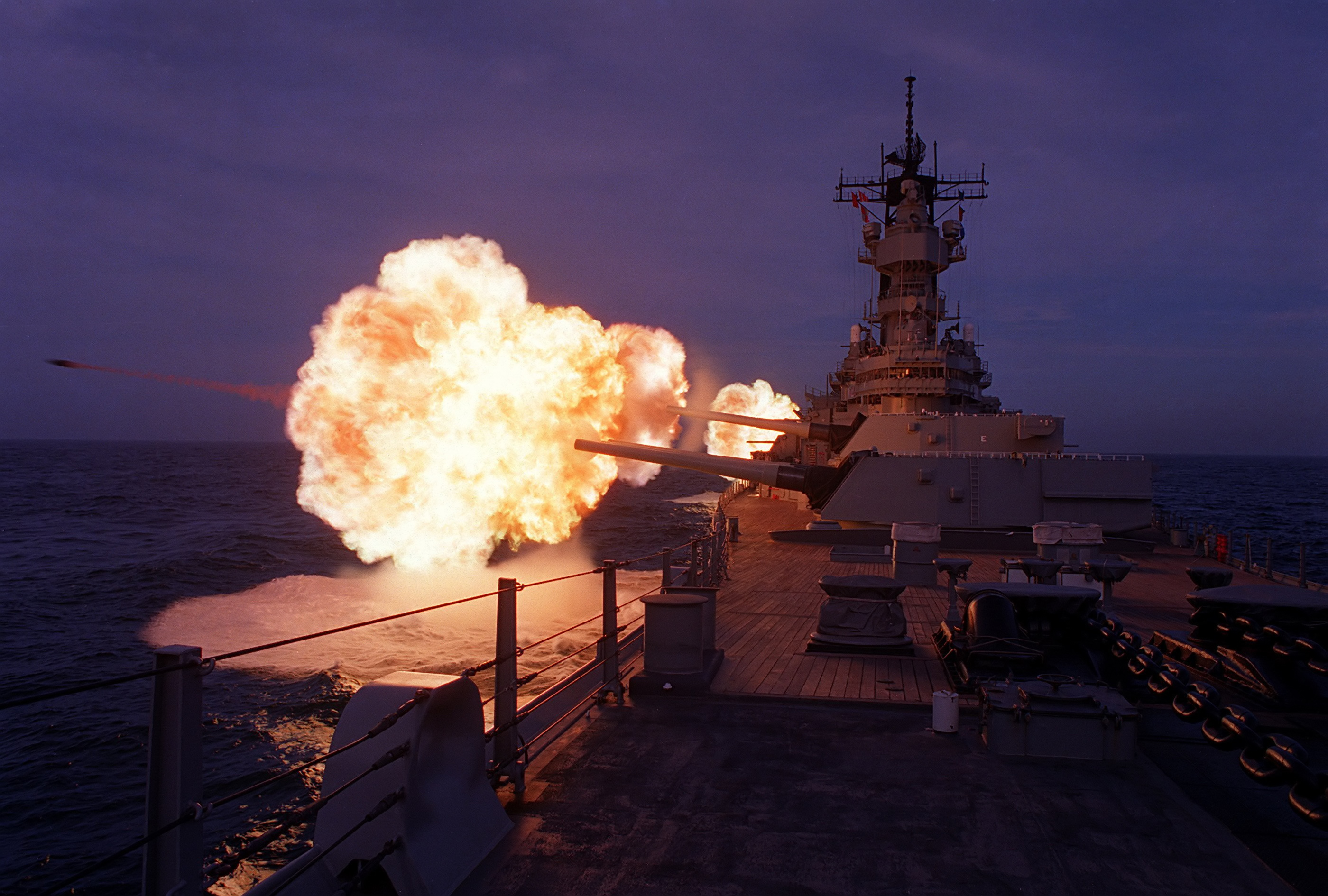 The battleship USS MISSOURI (BB-63) fires a Mark 7 16-inch/50-caliber gun from each of its three main gun turrets during exercise RimPac '90 near Hawaii.